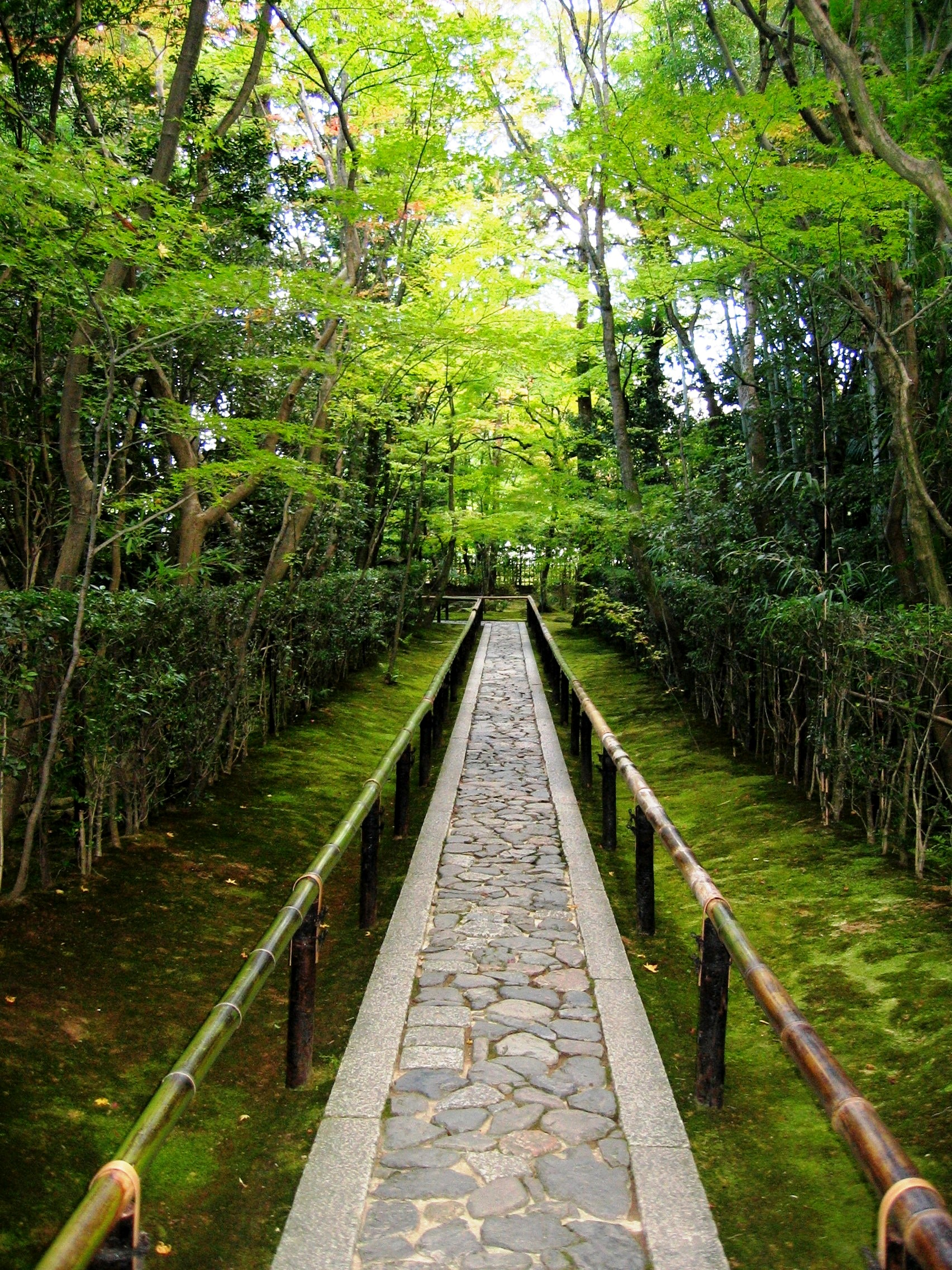 Entrance Walkway, Koto-in Zen Temple, Kyoto, Japan.